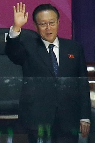 Incheon Asian Games 2014 Closing Ceremony October 4, 2014 Incheon Asiad Main Stadium, Incheon-si Ministry of Culture, Sports and Tourism Korean Culture and Information Service ( Official Photographer : Jeon Han This official Republic of Korea photograph is CC-BY-SA-2.0-licensed, so while restrictions such as personality or privacy rights may apply, in general, manipulations are allowed. If you require a photograph without a watermark, please use Flickr e-mail.